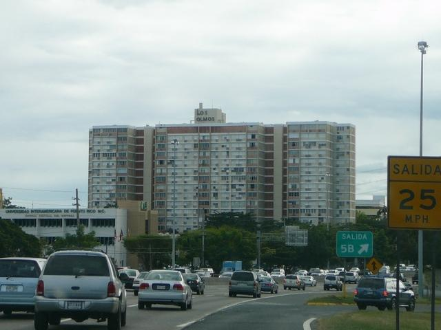 Exit number in Puerto Rico